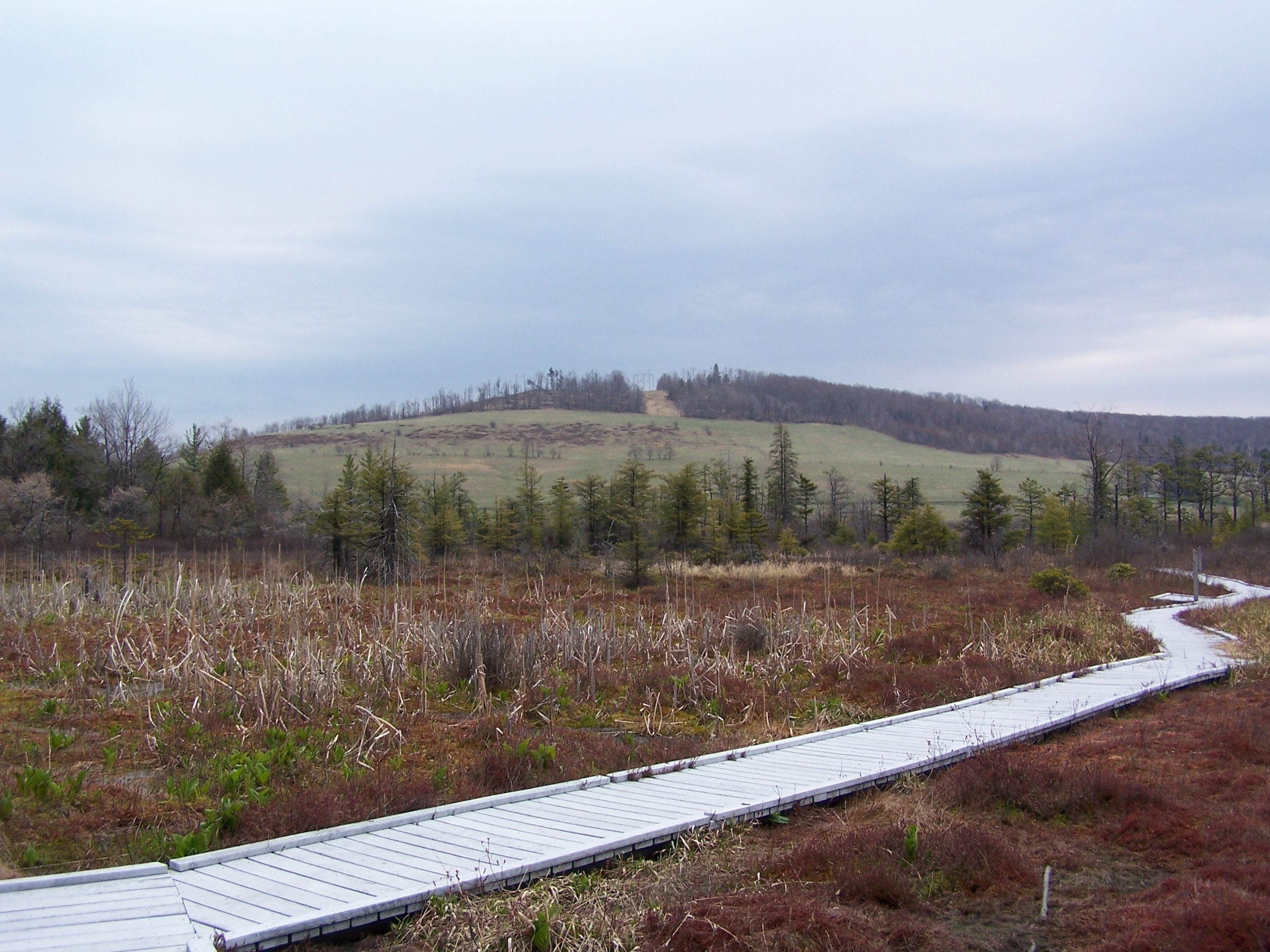 Boardwalk at Cranesville Swamp Preserve.